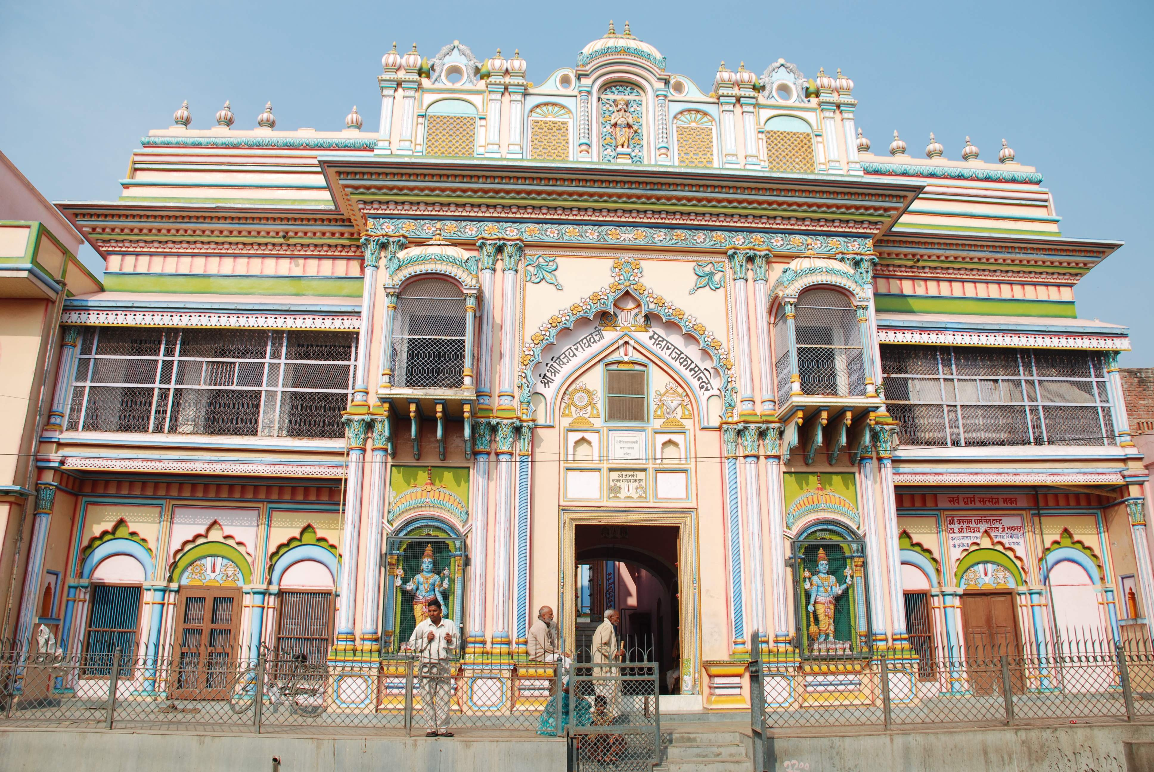 Vijayraghav Mandir of Ayodhya, one of the most famous Thenkalai Sri Vaishnava establishments of the holy city